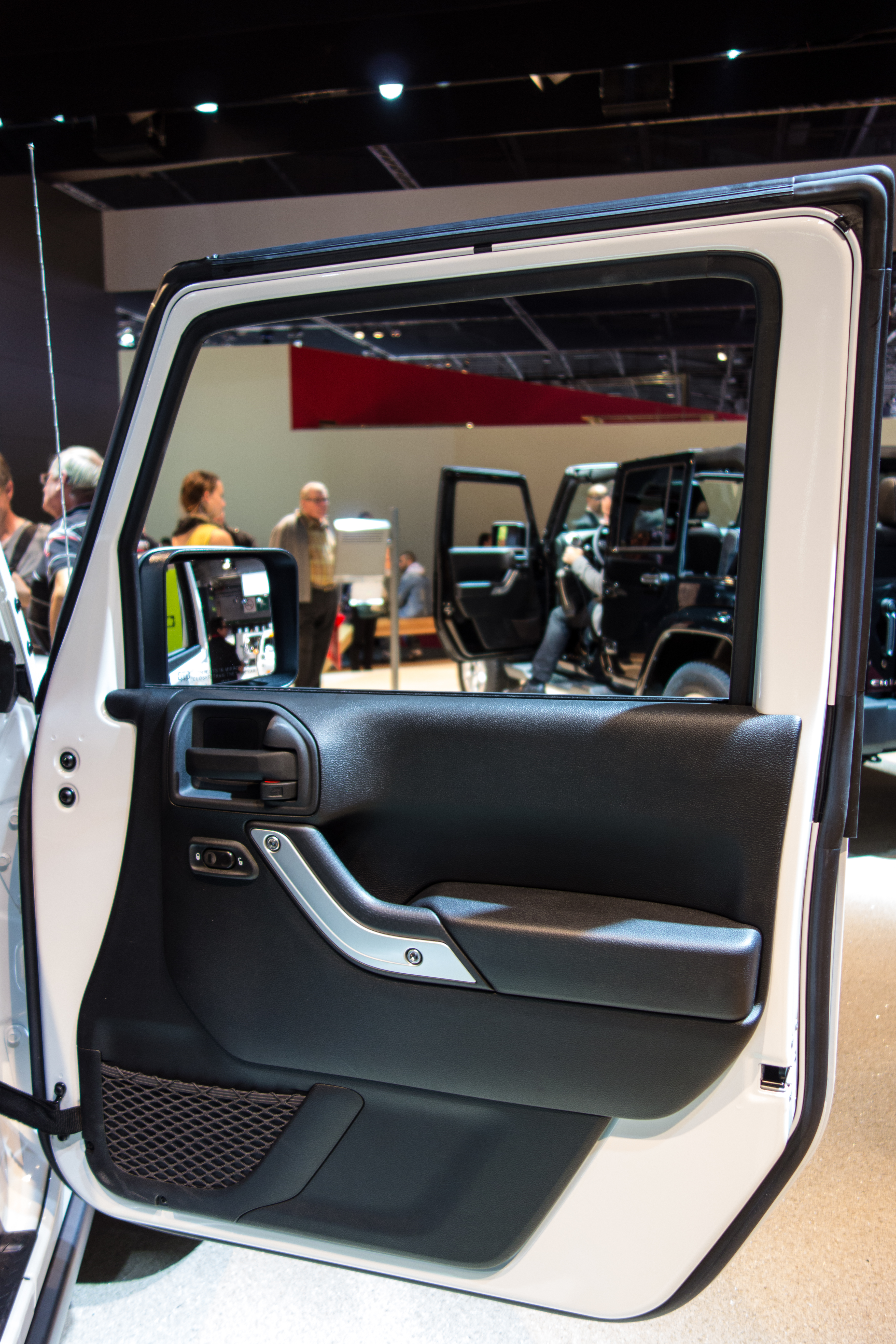 Mondial De L'automobile Paris 2012 | Paris Motor Show 2012